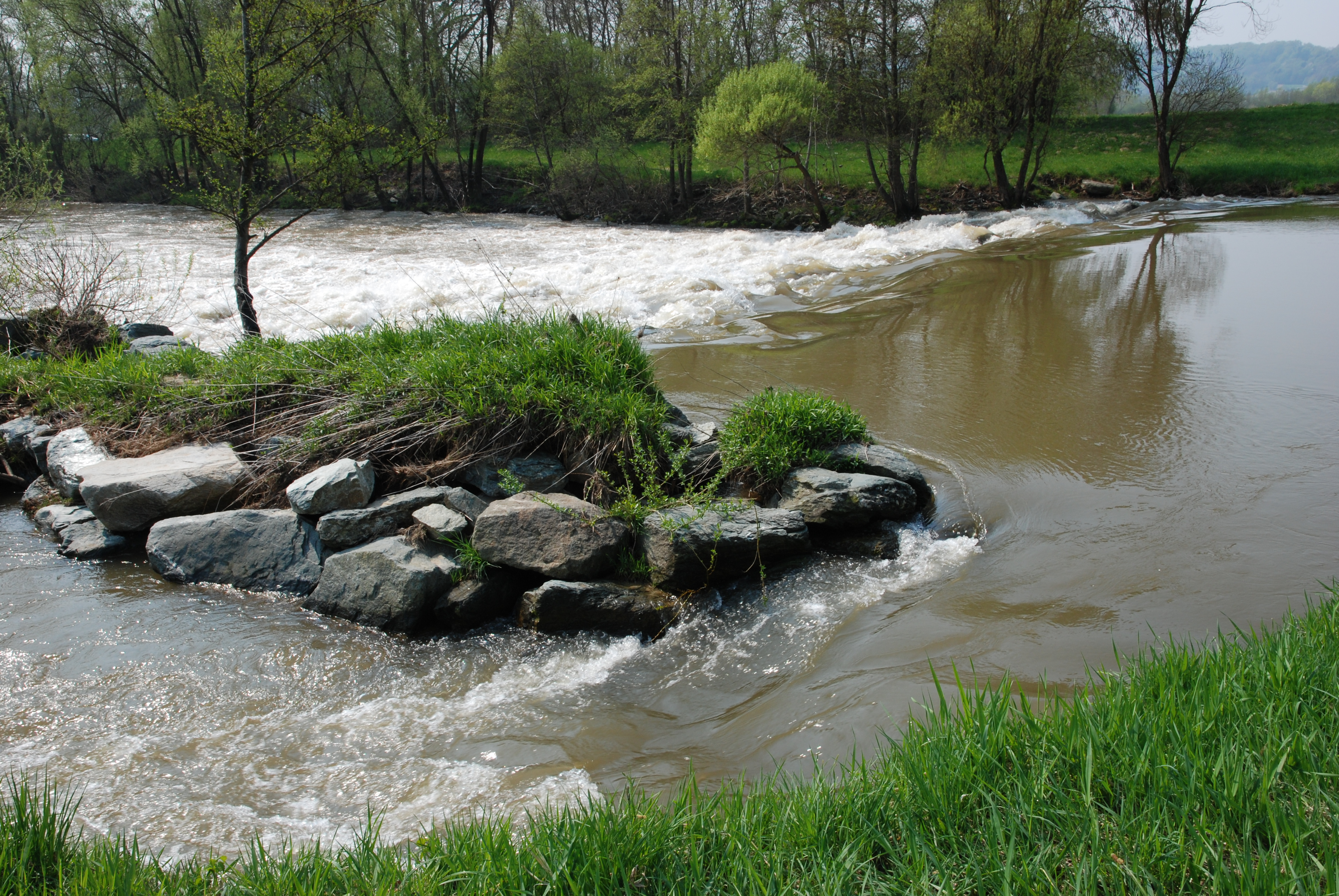 Lafnitz River